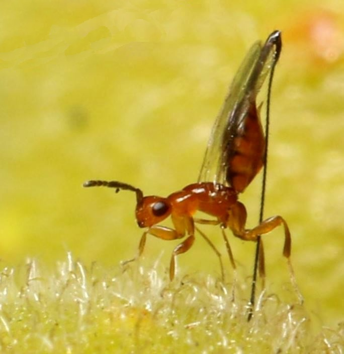 A fig wasp (Philotrypesis sp., Family Pteromalidae) ovipositing into a fig (Ficus burkei) receptacle. Pietermaritzburg, South Africa.